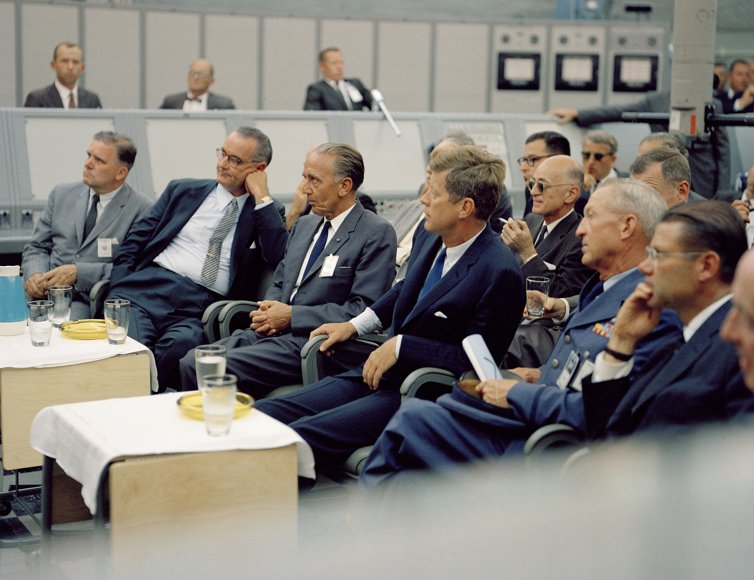 Briefing by Major Rocco Petrone (not pictured) during a tour of Blockhouse 34, Cape Canaveral Missile Test Annex. Seated left to right: Administrator James Webb, Vice President Lyndon Johnson, Director Kurt H. Debus, President John Kennedy.